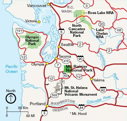 Mount Rainier National Park area map. Moved here as part of Wikivoyage migration.